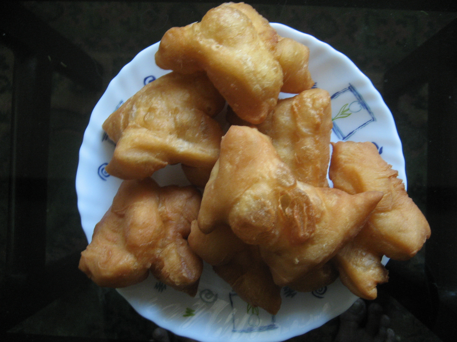 Mini e kya kway (youtiao) from Myenigon, Yangon